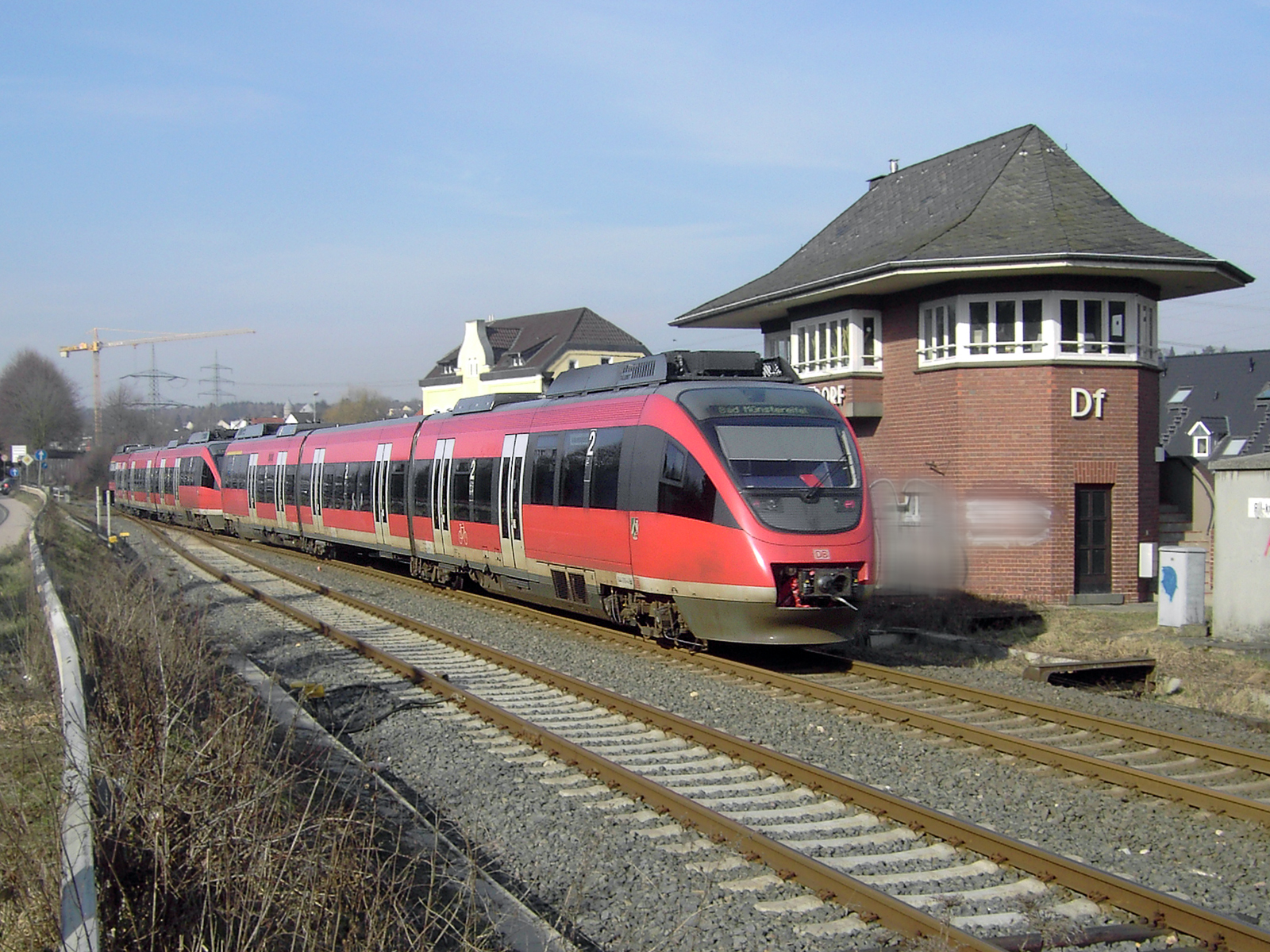 Diesel-electric TALENT DMU at the Bonn-Duisdorf signals box